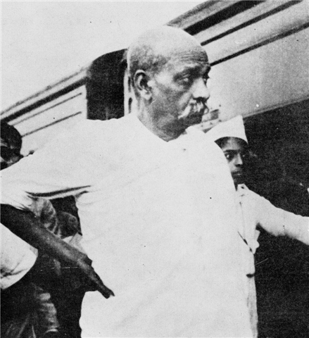 Source: "Patel: A Life" by Rajmohan Gandhi (1992, Navajivan House)